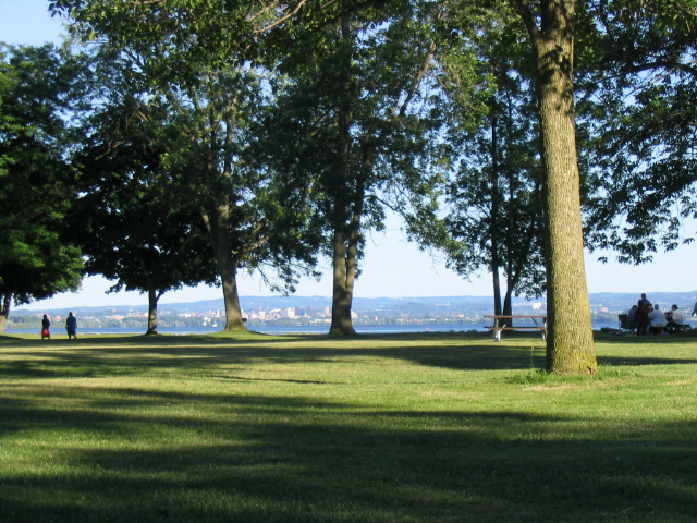 photo of Onondaga Lake Park, taken by me on July 2, 2005